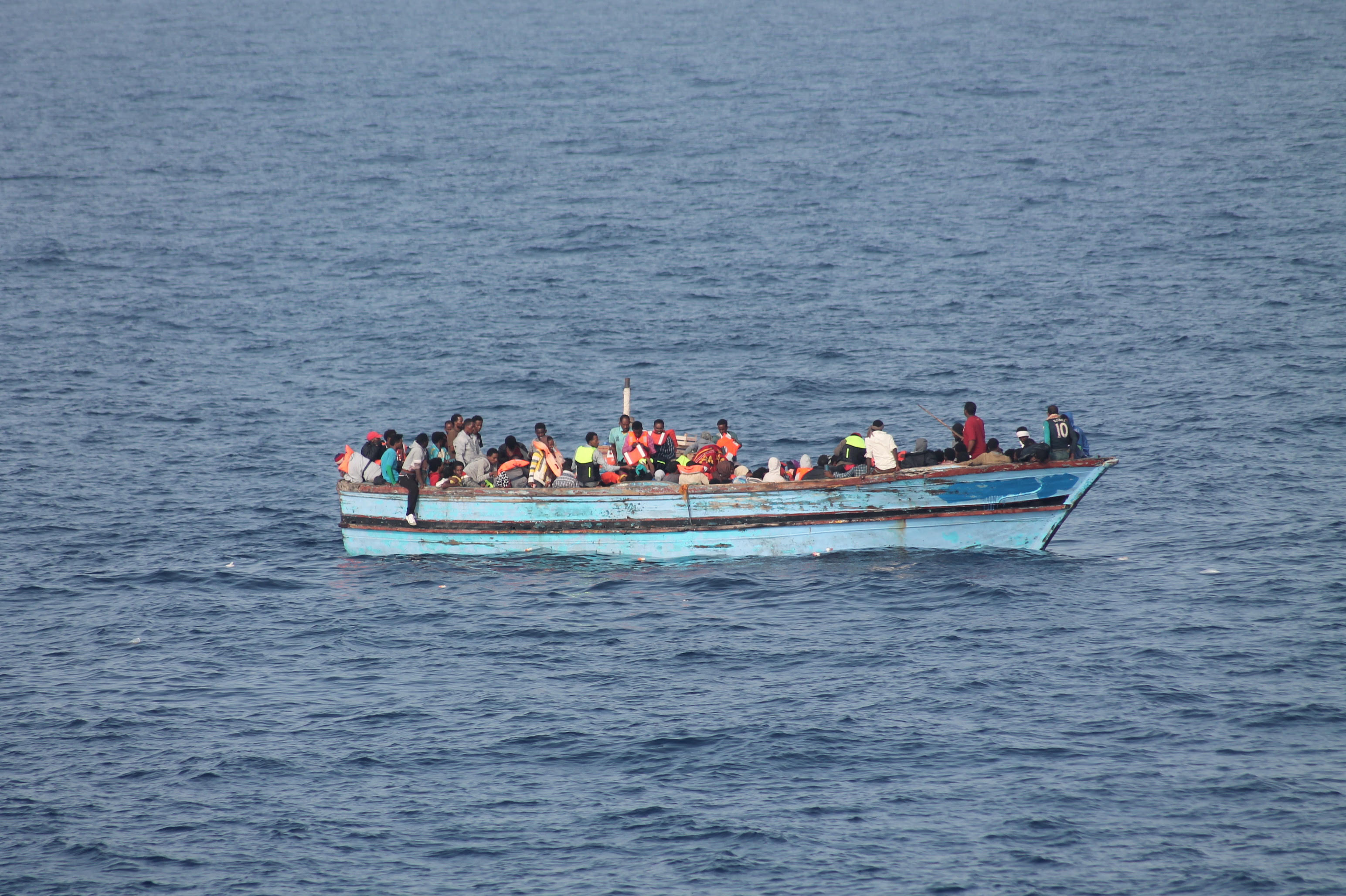 P31 L.É. Eithne patrol vessel (Irish Naval Service) during Operation Triton on 15 June 2015 at 50 & 70 km's NW of Tripoli (Libya)